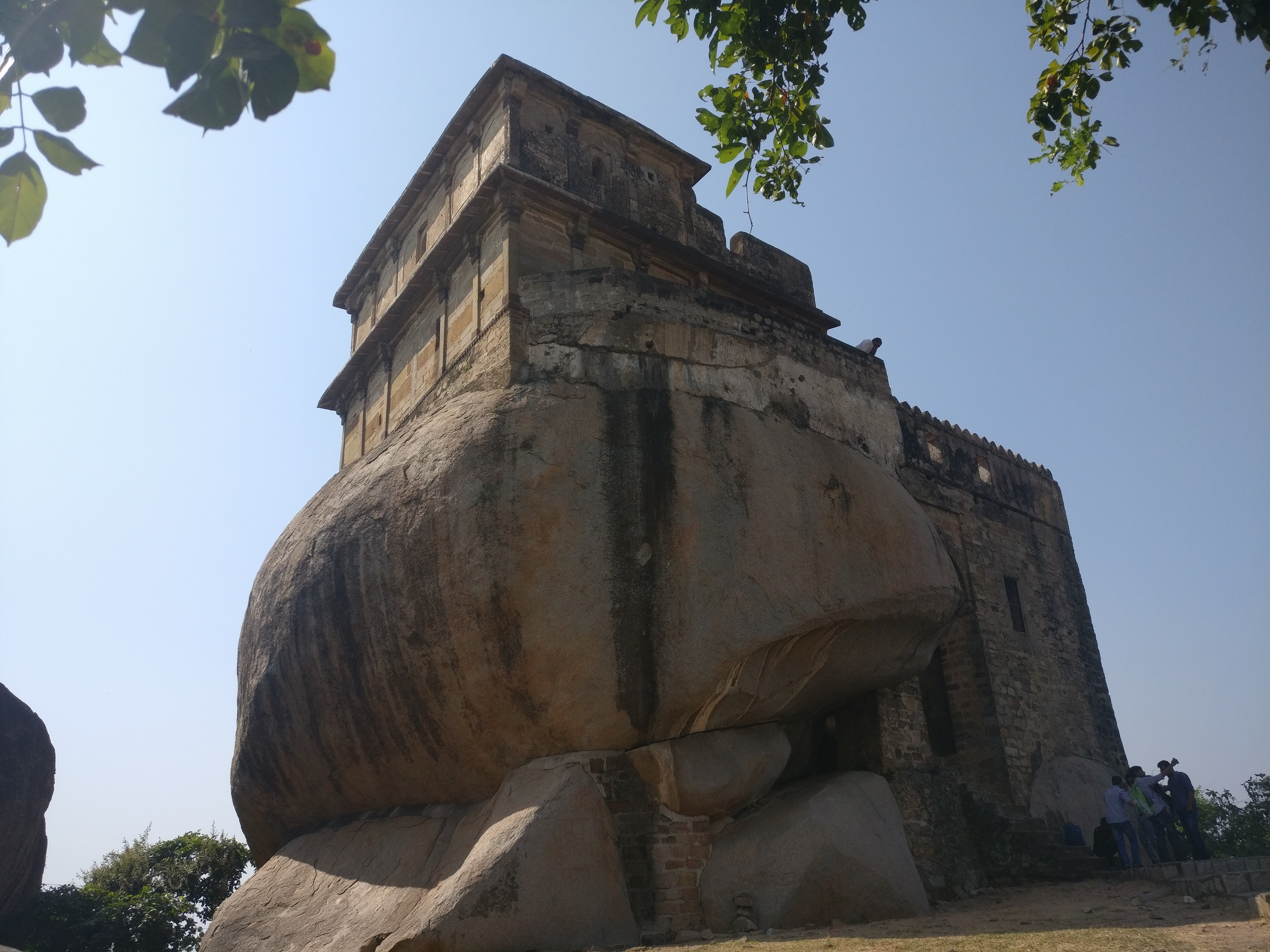 Madan Mahal Area in Jabalpur, must visit location